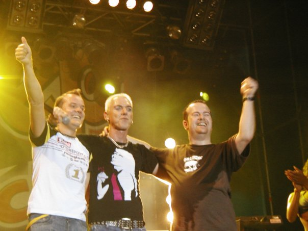 Scooter band during 3rd Chapter (2002-2006). Jay Frog, HP Baxxter, Rick J Jordan. Photo during concert in Kiev, September 4, 2004.